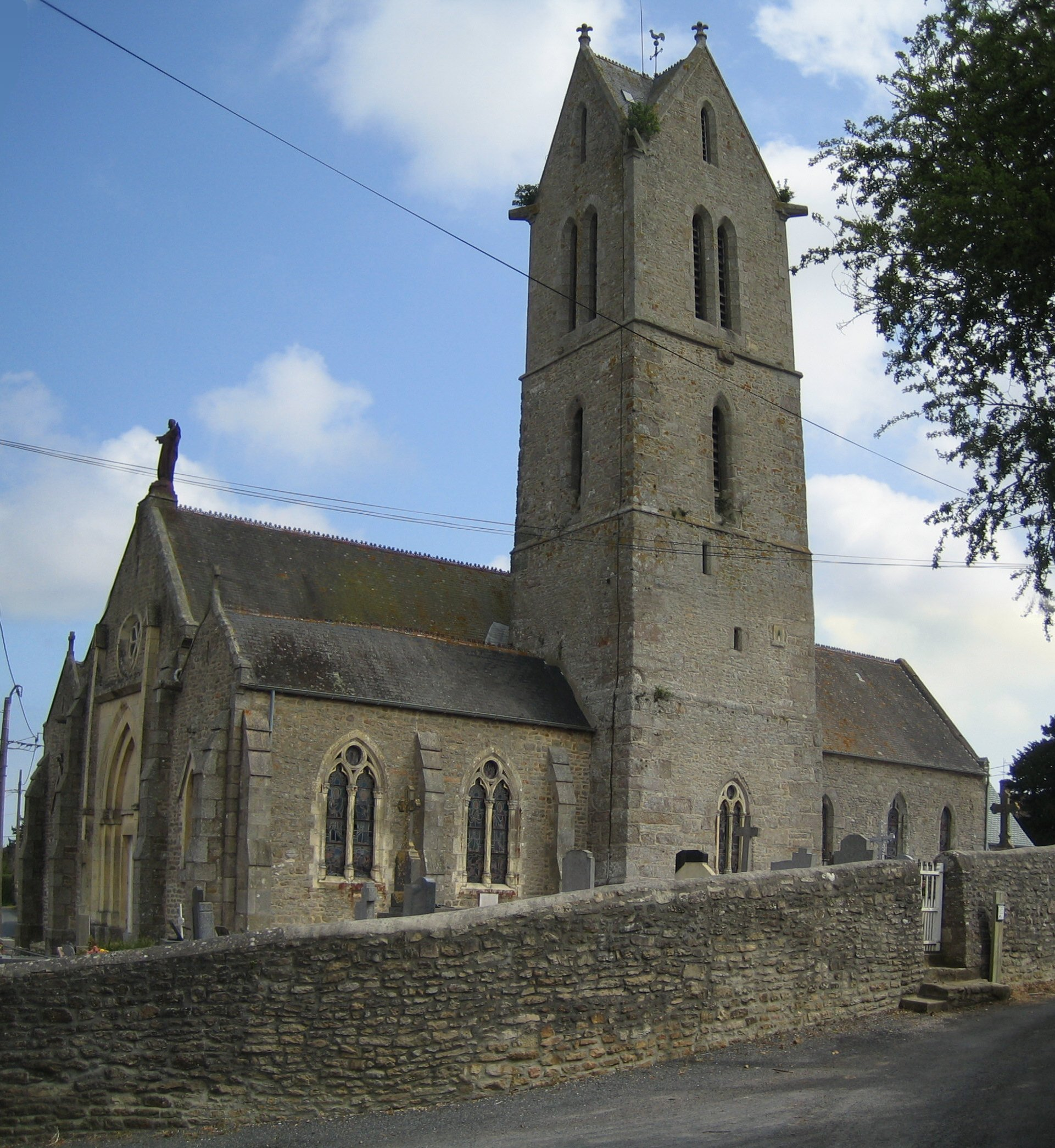 Church of Tocqueville (France, Manche)